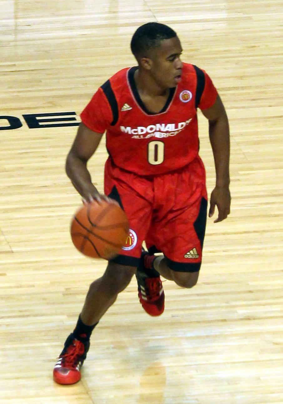 Kasey Hill during the w:2013 McDonald's All-American Boys Game